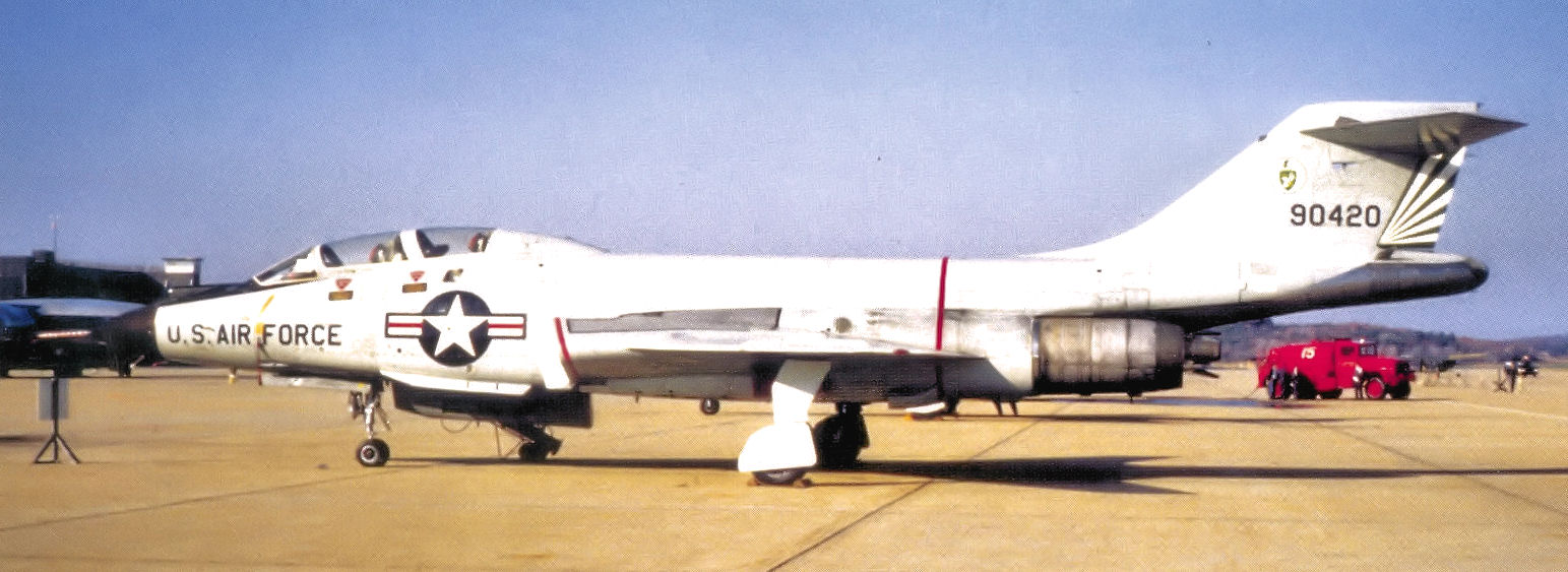 49th Fighter-Interceptor Squadron McDonnell F-101B-115-MC Voodoo 59-0420 Griffiss Air Force Base, New York 1966 0420 on display at Dover AFB Historical Center